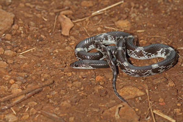 Bidar